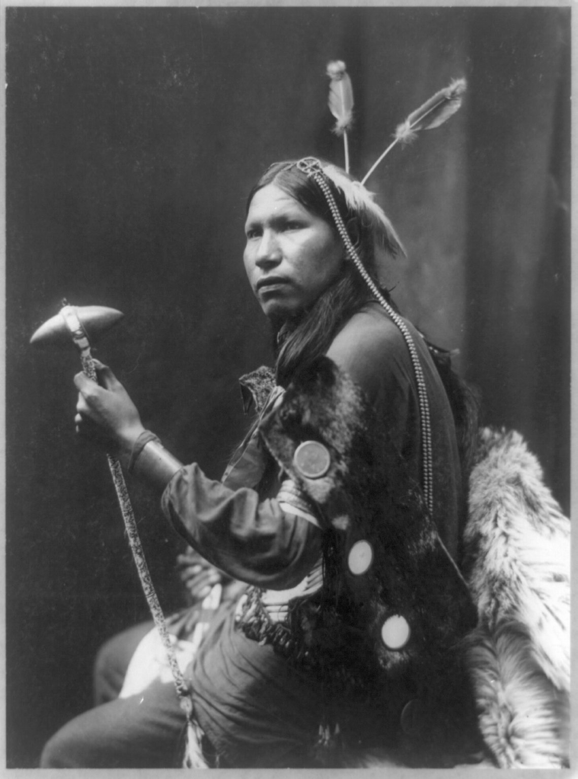 Native American Afraid of Hawk, three-quarter length portrait, seated, facing left; holding tomahawk. CREATED/PUBLISHED: c1899. PHOTOGRAPHER: Heyn, Herman, b. 1852. REPOSITORY: Library of Congress Rare Book and Special Collections Division Washington, D.C. 20540 USA. Public Domain.